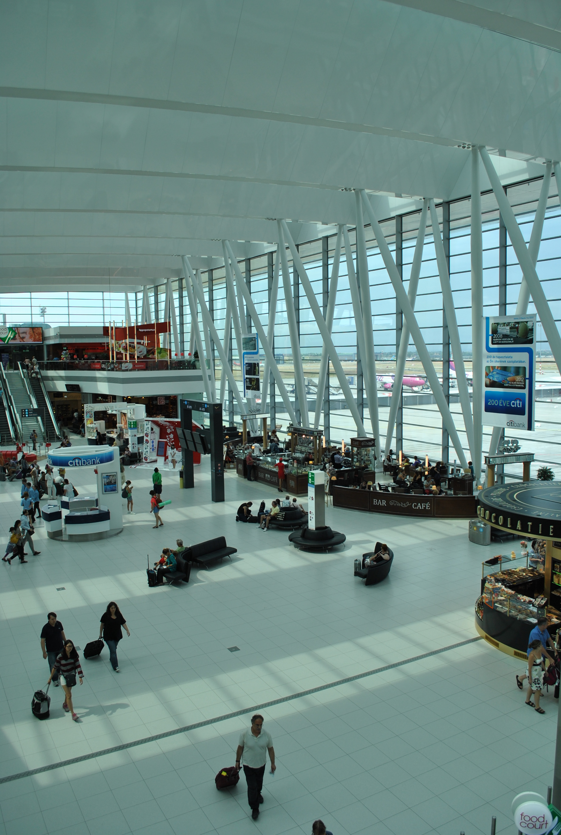 Budapest Liszt Ferenc International Airport inside of SkyCourt